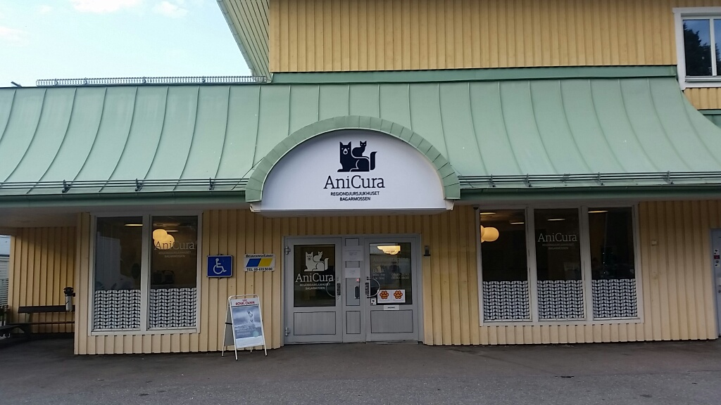 Animal hospital